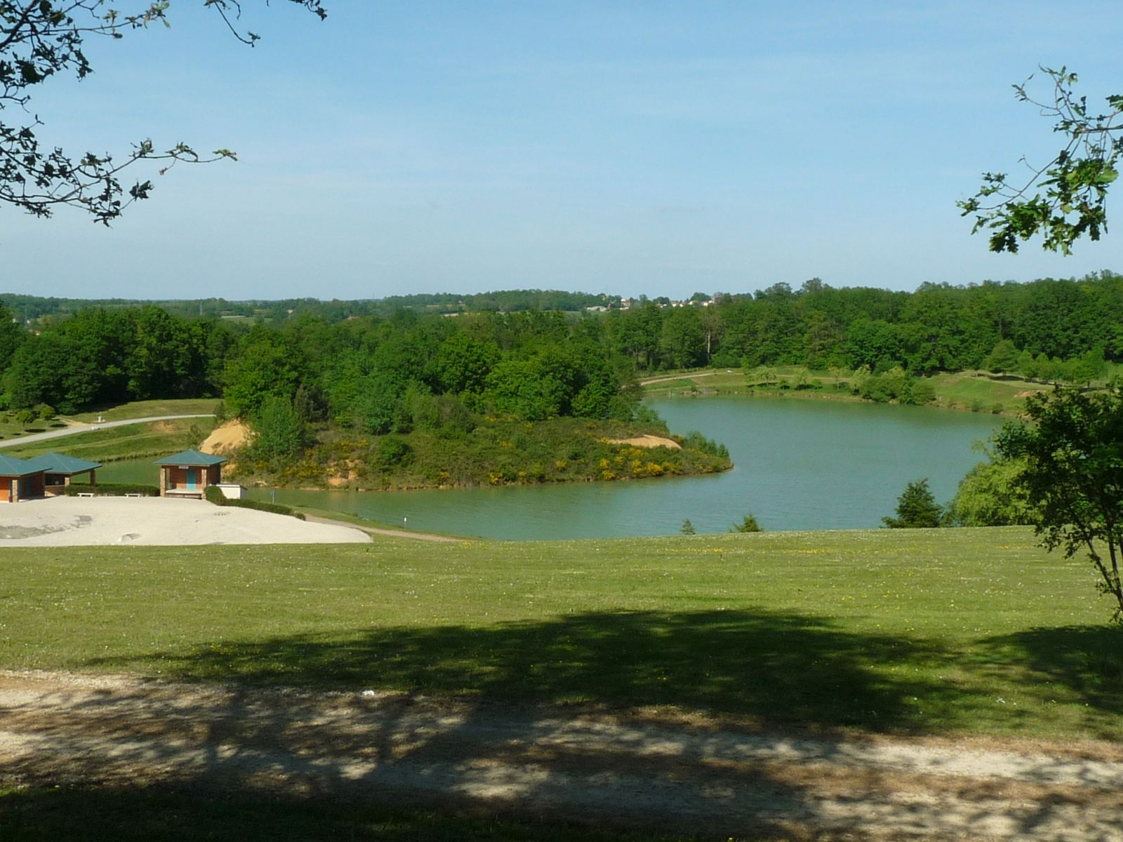 recreational park